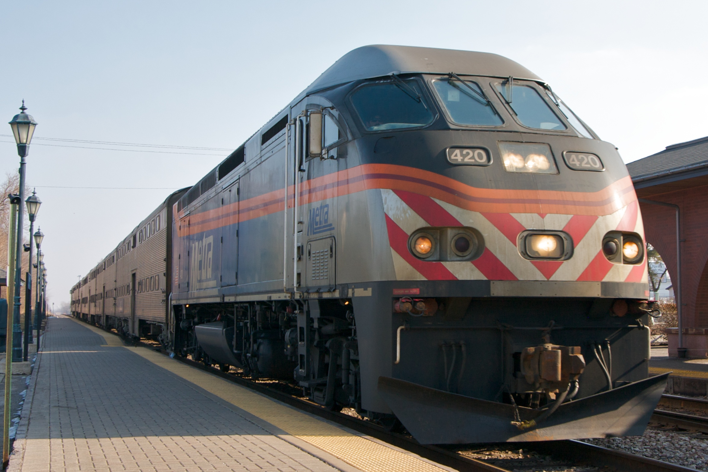 Metra station in Roselle, Illinois.